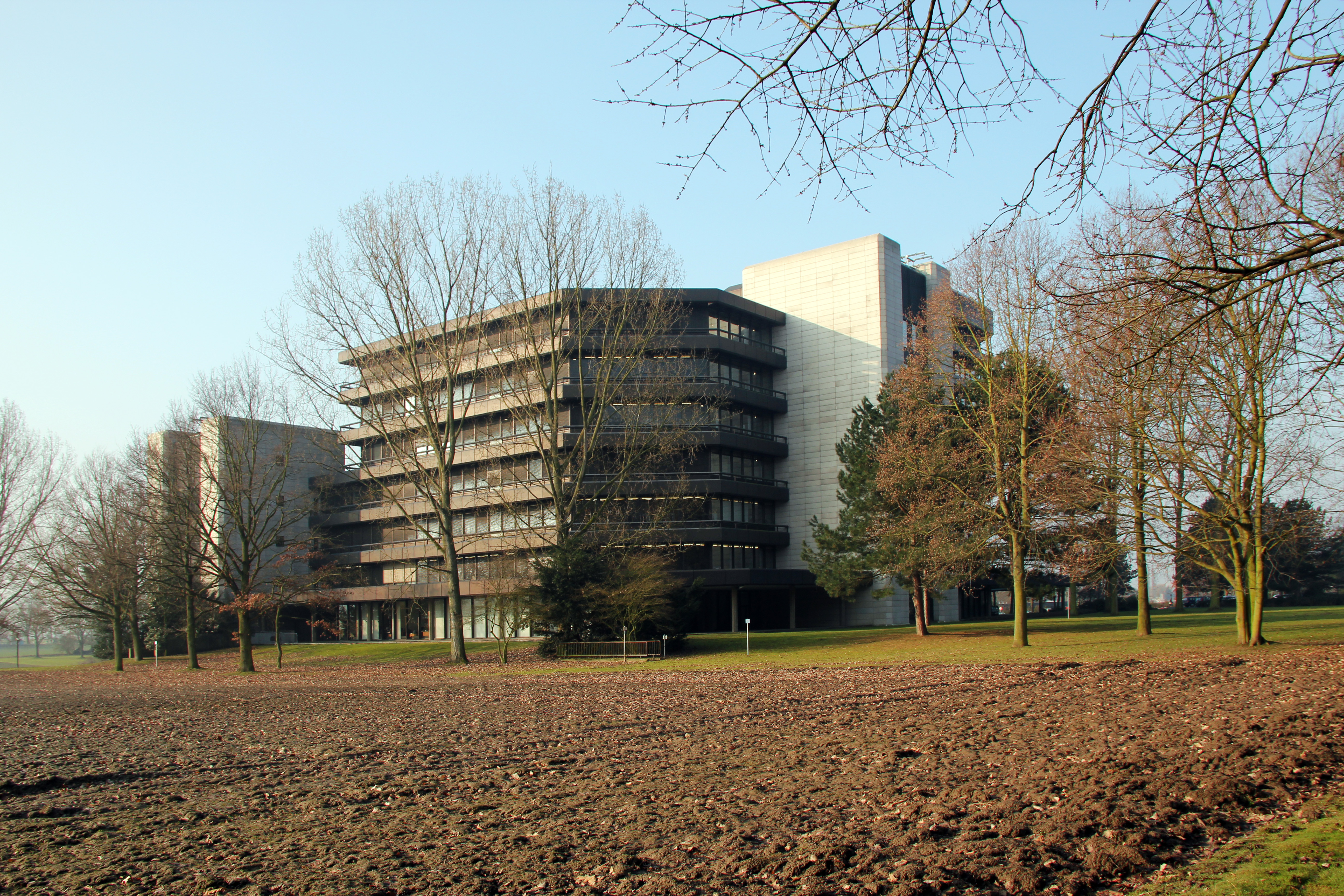 RWE AG, founded 1898 as Rheinisch-Westfälisches Elektrizitätswerk Aktiengesellschaft, is the holding company for the dominant electricity producer in Germany.